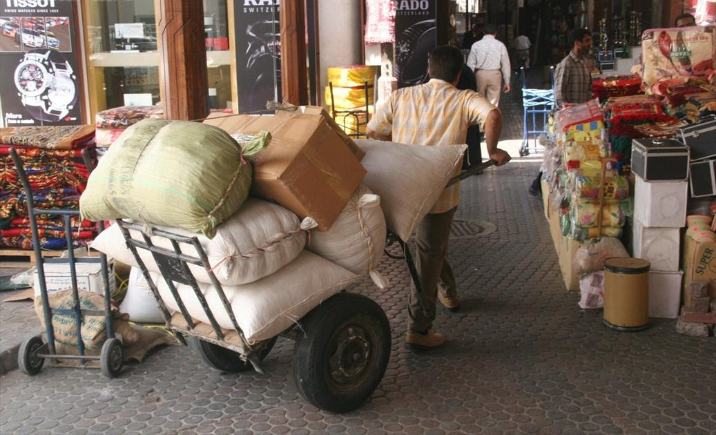 This is a photo of a souk in Deira, Dubai, United Arab Emirates on 9 May 2007.